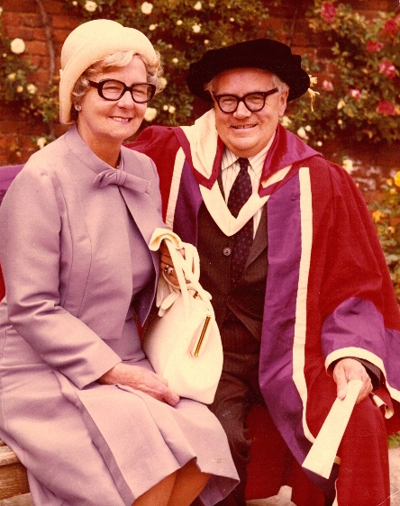 Professor Elfyn Richards with first wife Eluned. Photo provided by the family of Elfyn Richards.